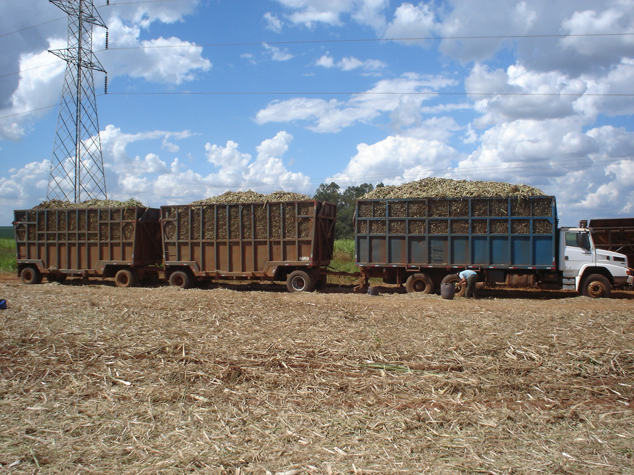 Sugarcane harvest in São Paulo state, Brazil.